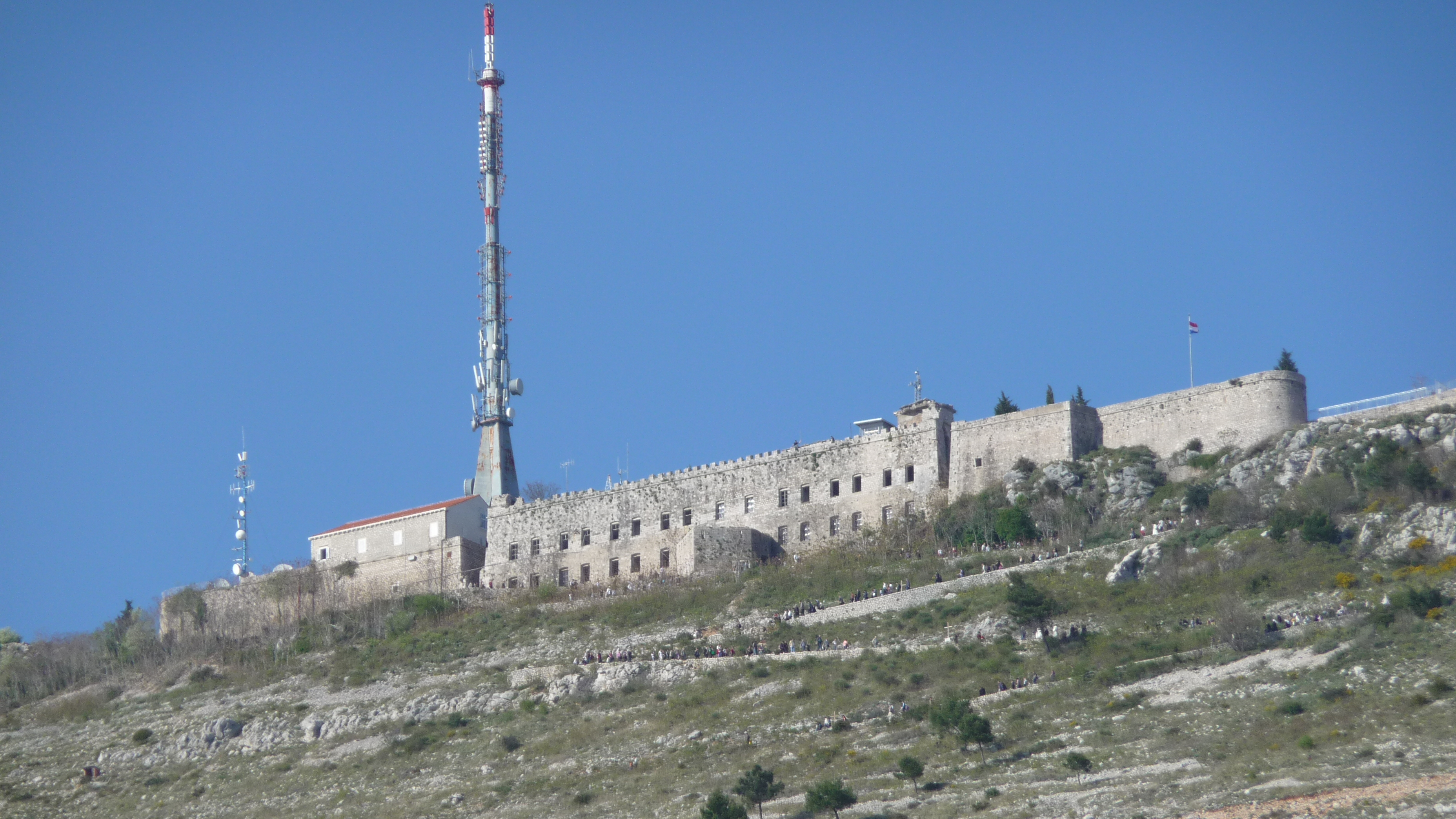 Fort Imperial nearby Dubrovnik, Croatia.